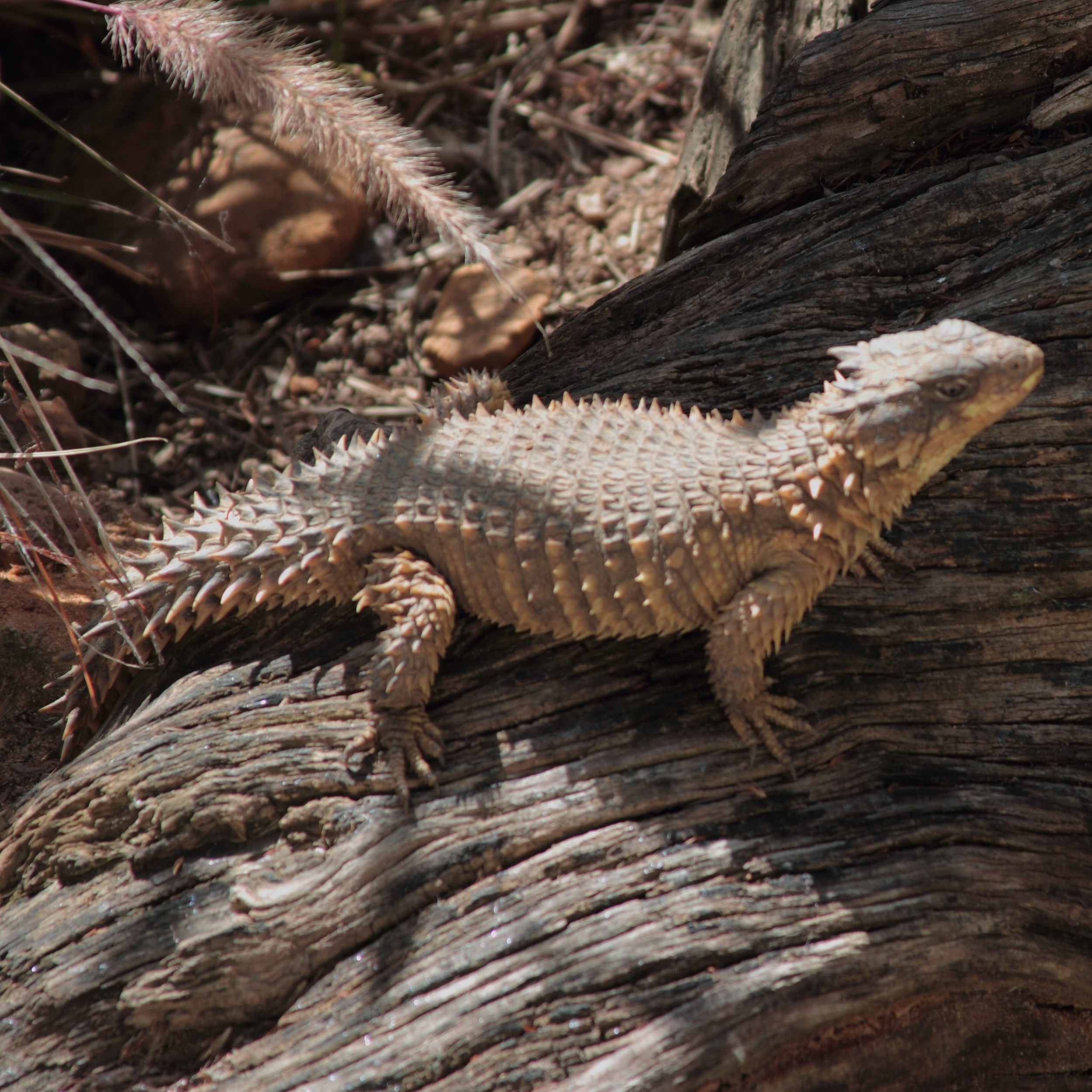 Image of Cordylus giganteus taken at the San Diego Zoo.